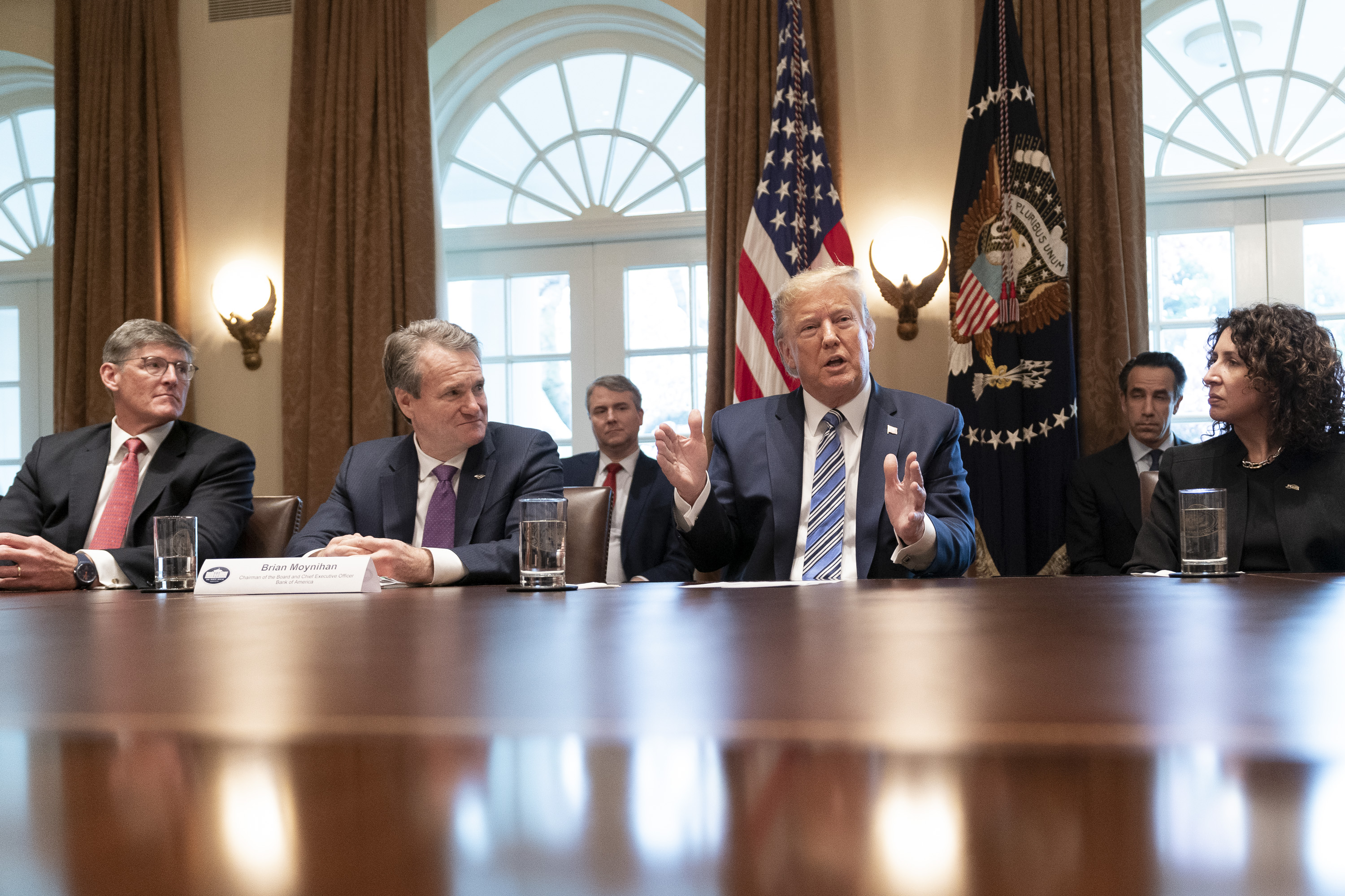 President Donald J. Trump meets with representatives of the banking industry Wednesday, March 11, 2020, in the Cabinet Room of the White House, to discuss how the financial services industry can meet the needs of their customers, particularly consumers and small businesses, who may be affected by COVID-19. (Official White House Photo by Joyce N. Boghosian)